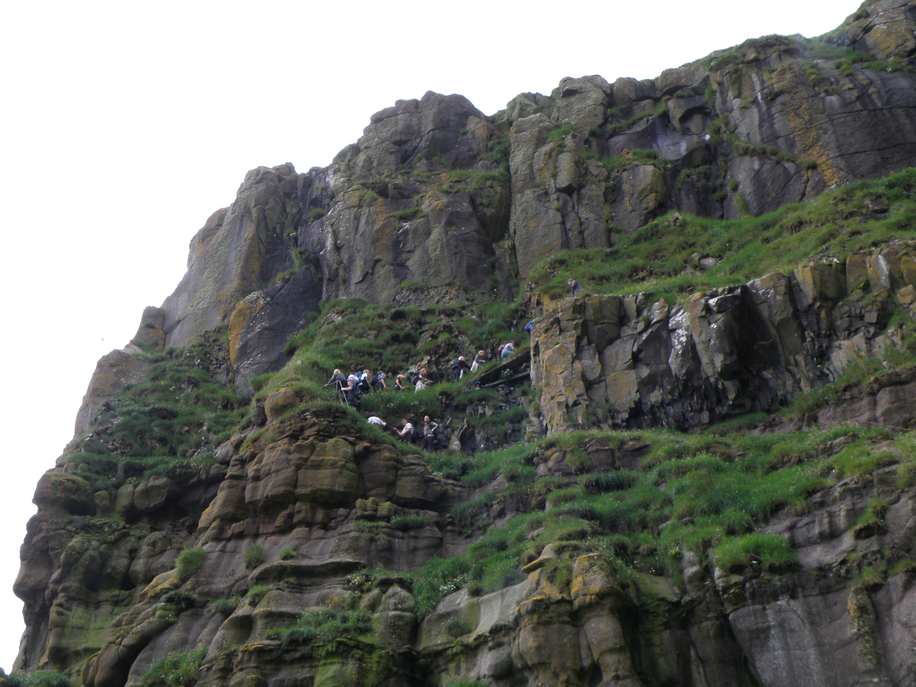 Stóra Dímun, also called just Dímun, is one of the smallest of the inhabited islands of the Faroes. The island is 2,65 km2 and 395 m high. The village is located 100 meters above sea level. In 2014 the population was 9. A school has been built there for the children who lives there, three teachers from a school in Tórshavn travel to the island one each time, in order to teach the children. The helicopter is the only option if one wants to travel to the island, except if it is only a short trip, then it can be done with Norðlýsið from Tórshavn or the schooner Thorshavn from the island Suðuroy.